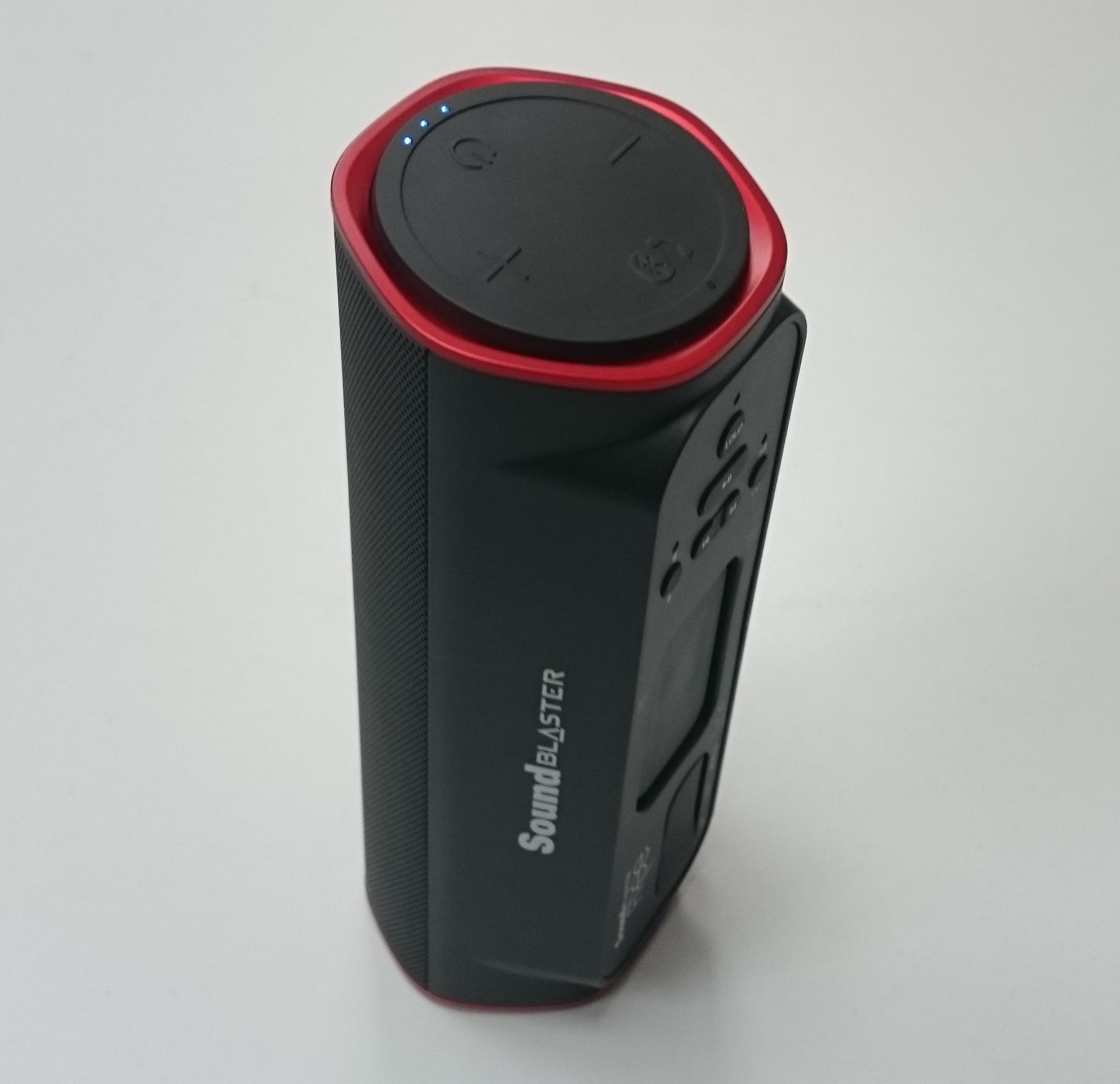 Sound Blaster FRee Black